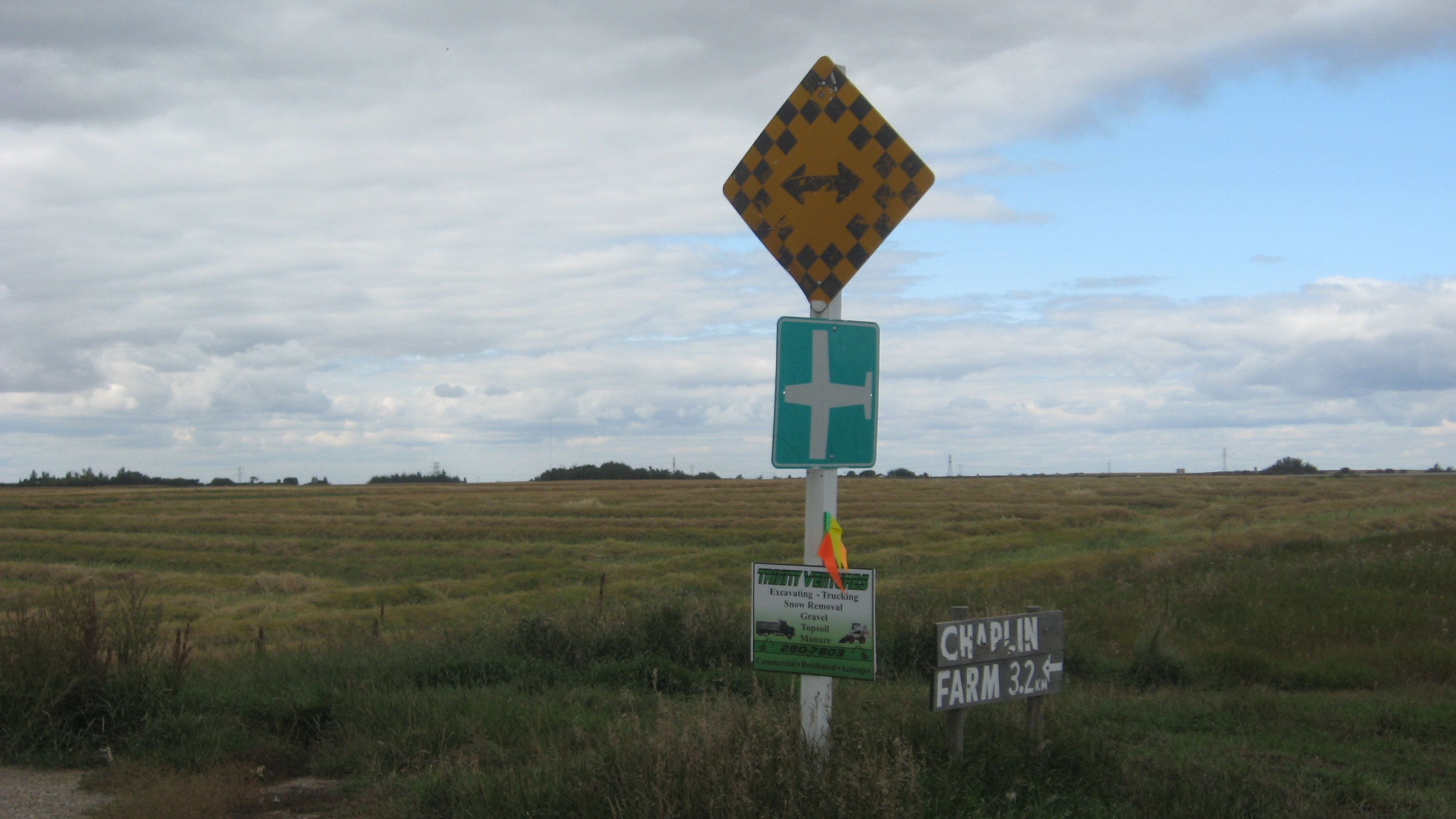 The end of Highway 663, the old Highway 11, outside Saskatoon, Saskatchewan. Shot September 2008